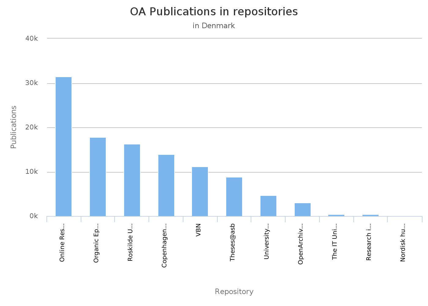 Bar graph describing open access to scholarly communication in Denmark